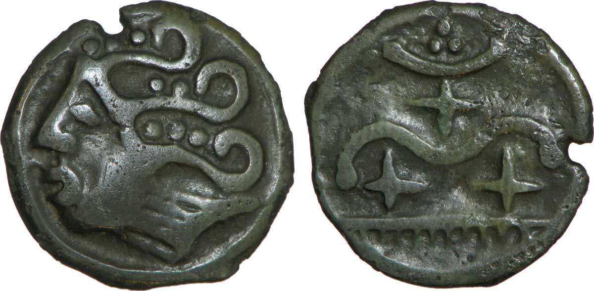 Potin aux croisettes, coiffure aux globules frappé par les Durocasses Date : c. 80-50 AC.